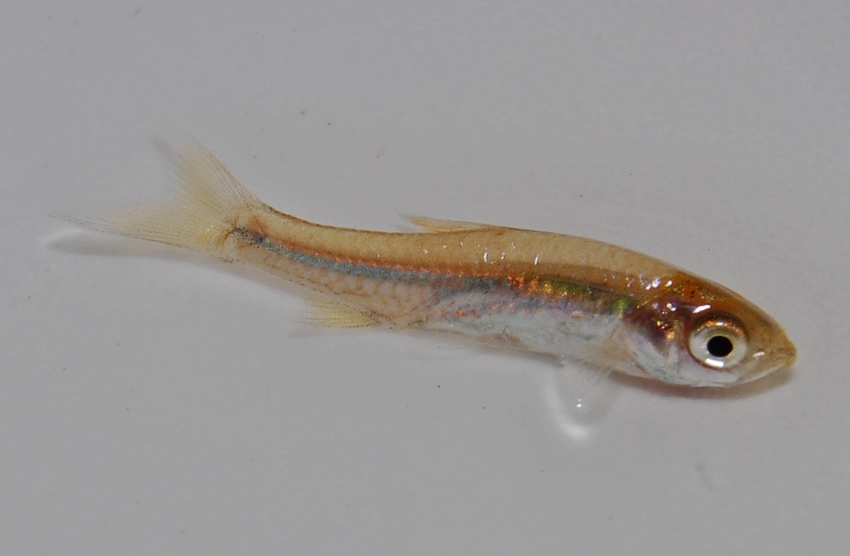 Rasbora argyrotaenia juvenile (19mm SL). From Cihideung (River) drainage (6°33.983’S 106°43.459’E), Bogor, West Java, Indonesia